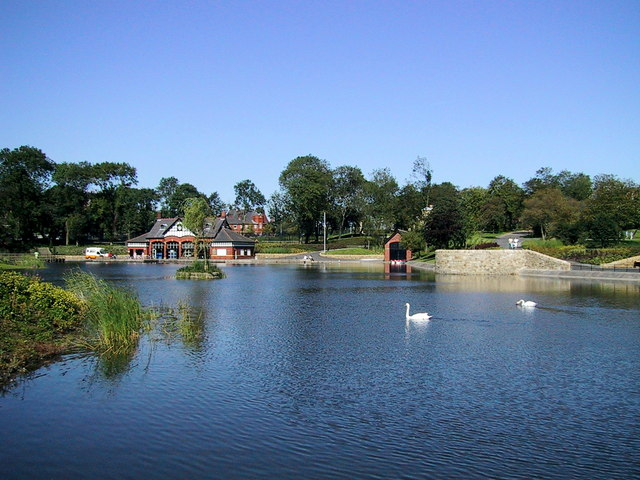 The Boathouse in Alexandra Park, Oldham, Greater Manchester, England. The park was created in 1865 to provide work for unemployed cotton workers during the 'cotton famine' caused by the American Civil War. The park was intended to provide the workers with a pleasant place for both relaxation and exercise. The boating lake used to have rowing boats for hire and an electric launch for the less energetic. The park, restyled and restored with lottery funding was reopened in 2004.